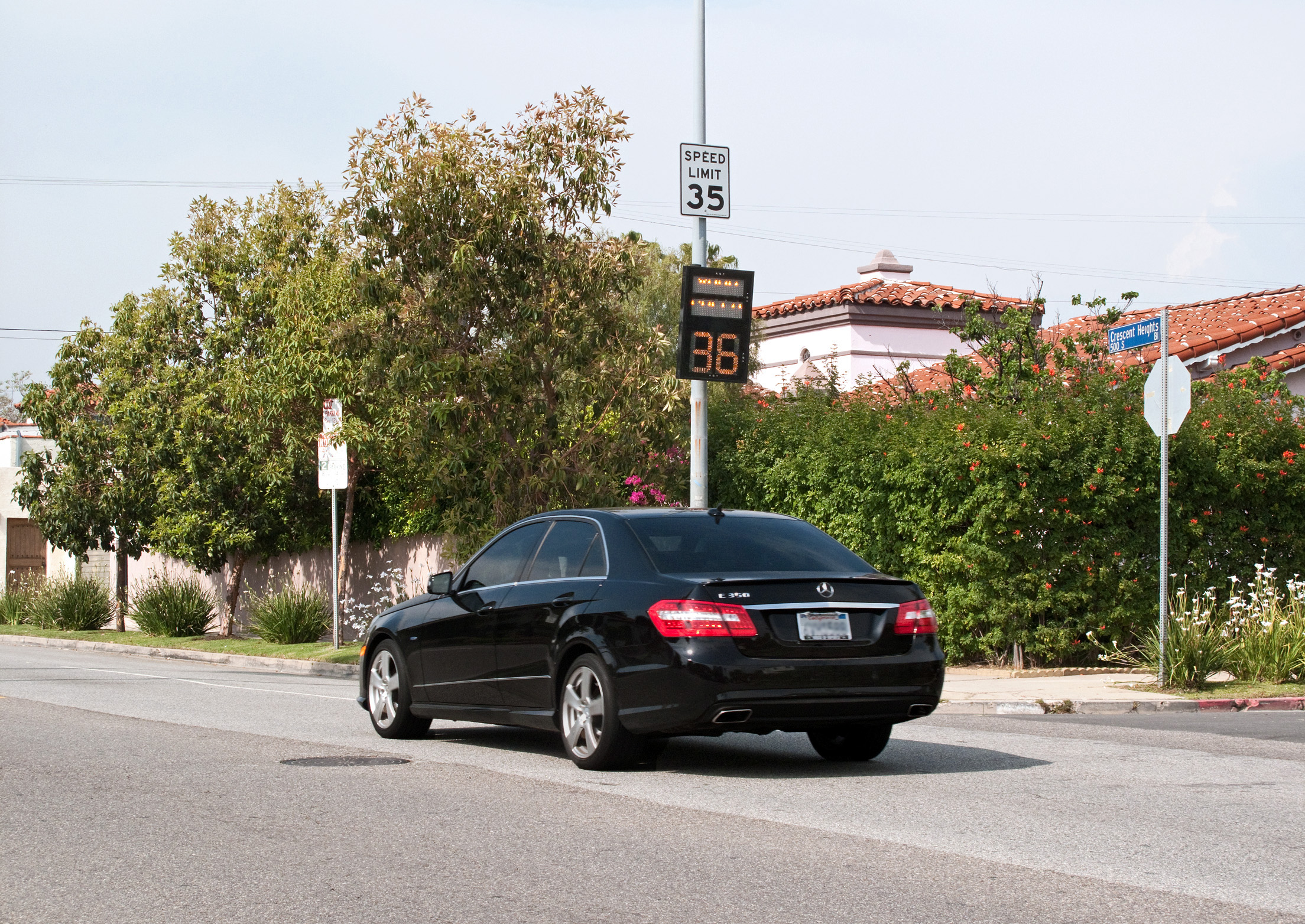 A computerized sign with the speed of the approaching motorist, on Crescent Heights Boulevard in the Fairfax neighborhood of Los Angeles, California.